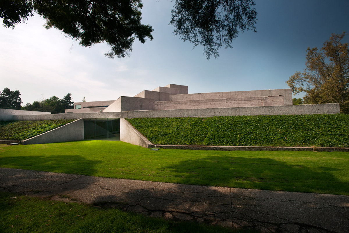 Back of the Tamayo Museum